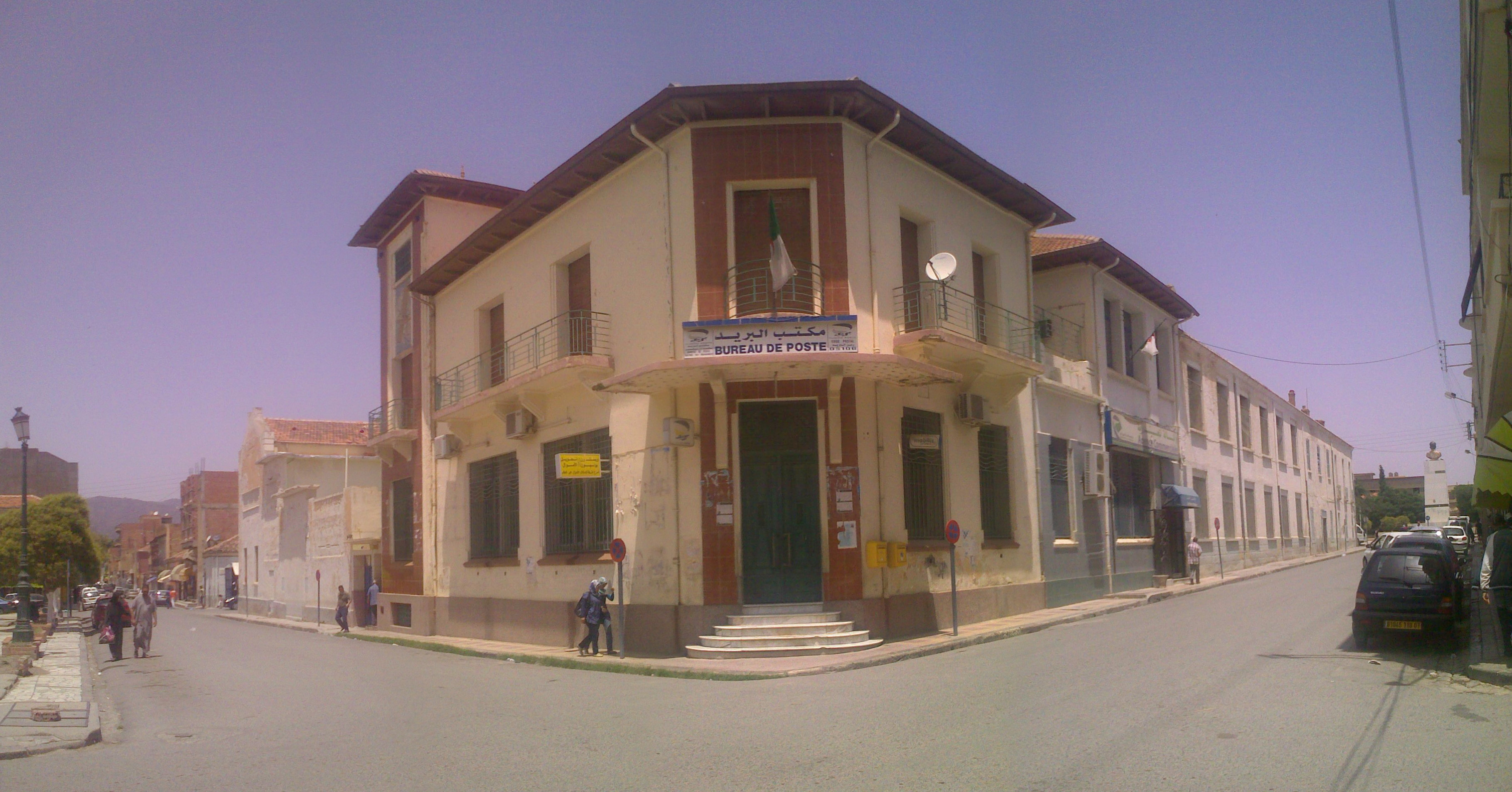 The old post office of Batna, in Algeria